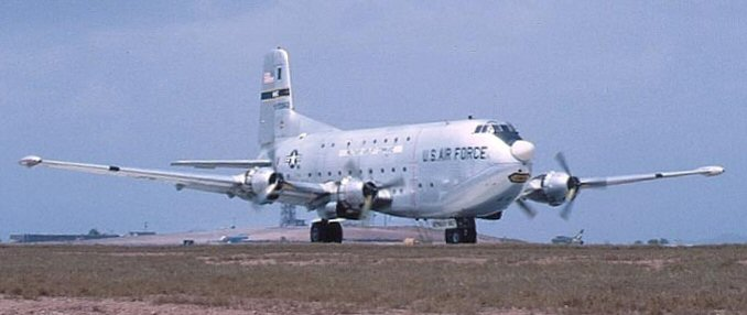 A U.S. Air Force Douglas C-124 Globemaster II.